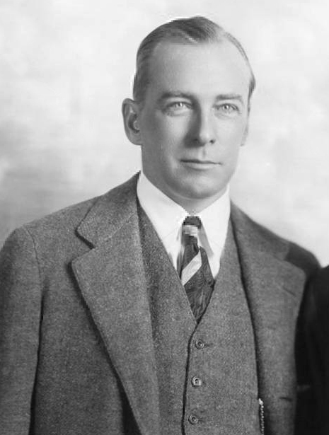 Broadway producer George Abbott, cropped from a photograph of Abbott and Philip Dunning